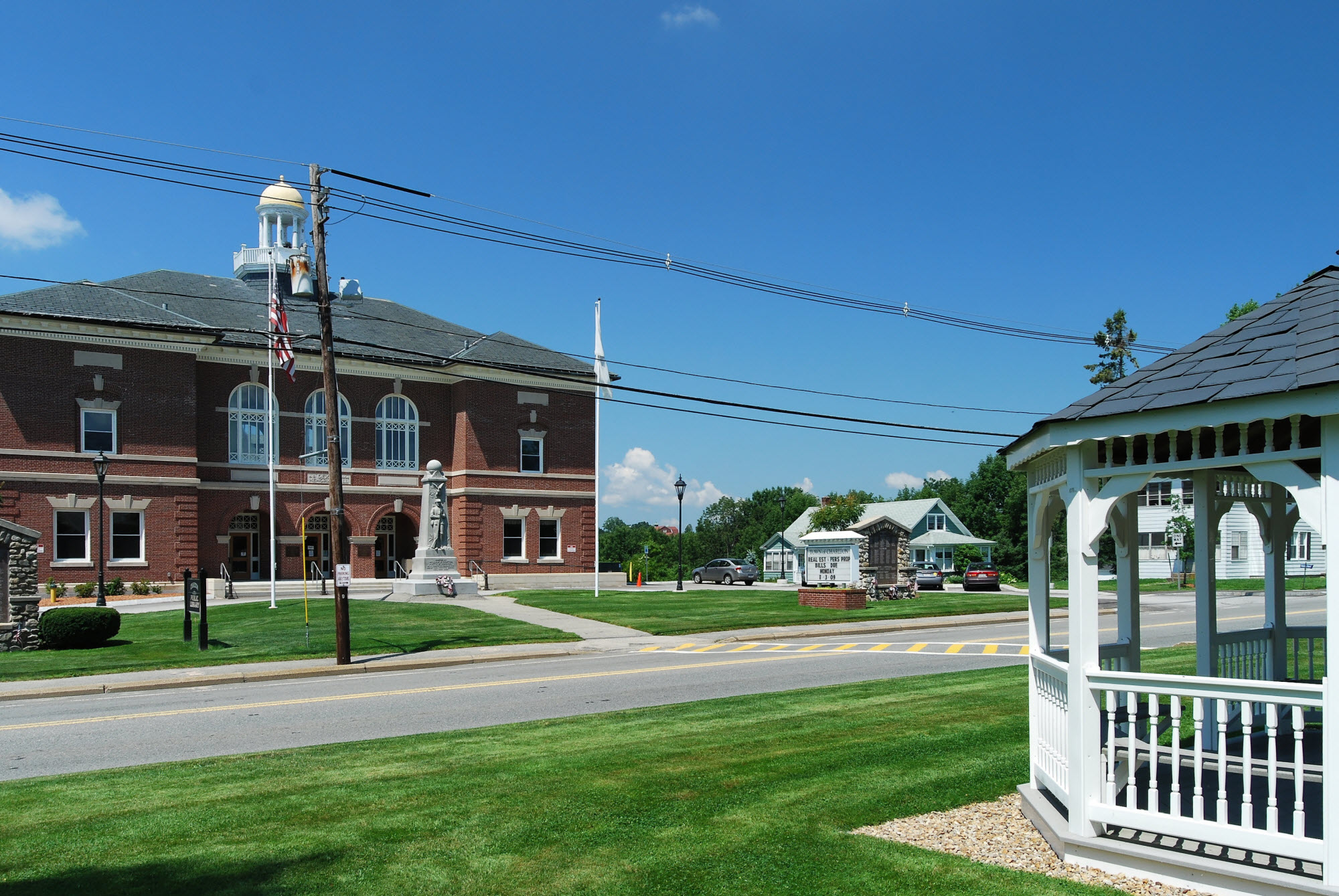 Historic Charlton Common, Charlton, Massachusetts